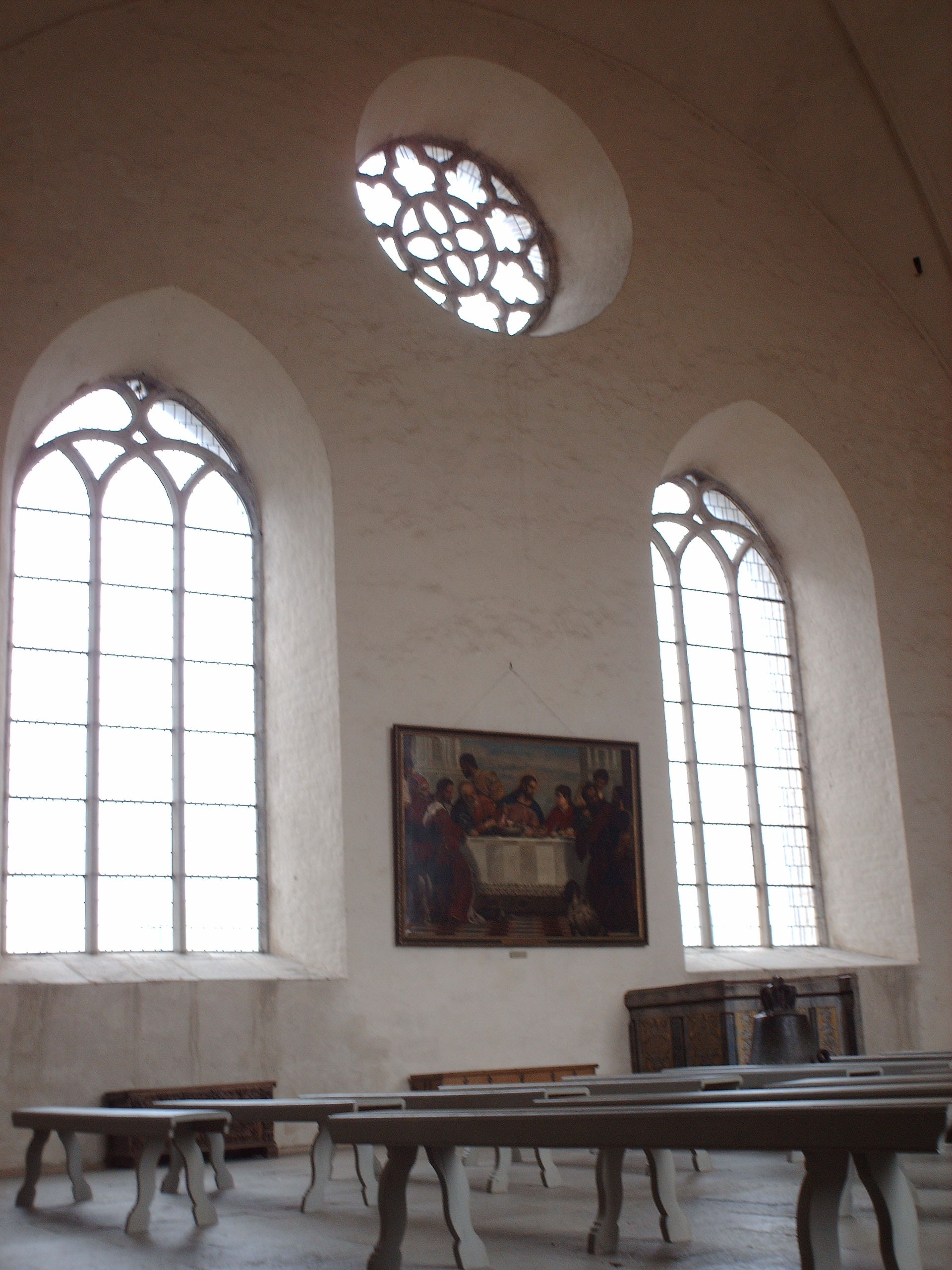 Castle chapel at Vadstena Castle, Sweden